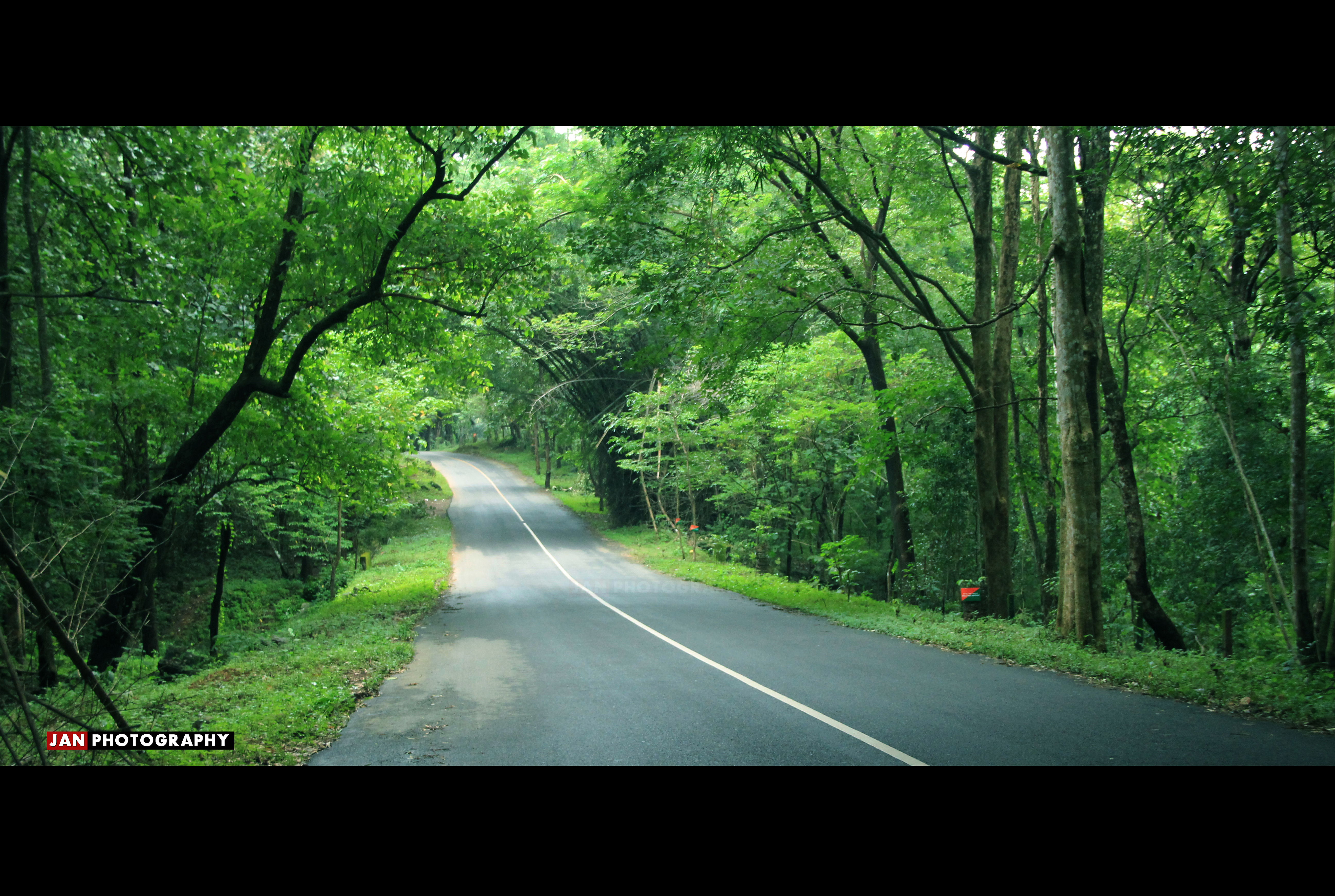 The Evern Green and Monsoon Kissed Forests of Athirappally